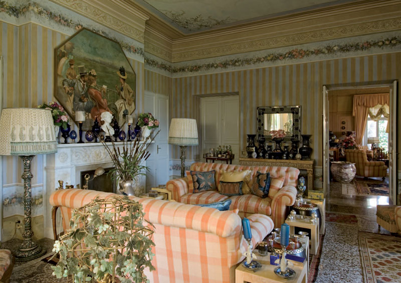 Villa Altachiara decorated by famous italian architect Renzo Mongiardino